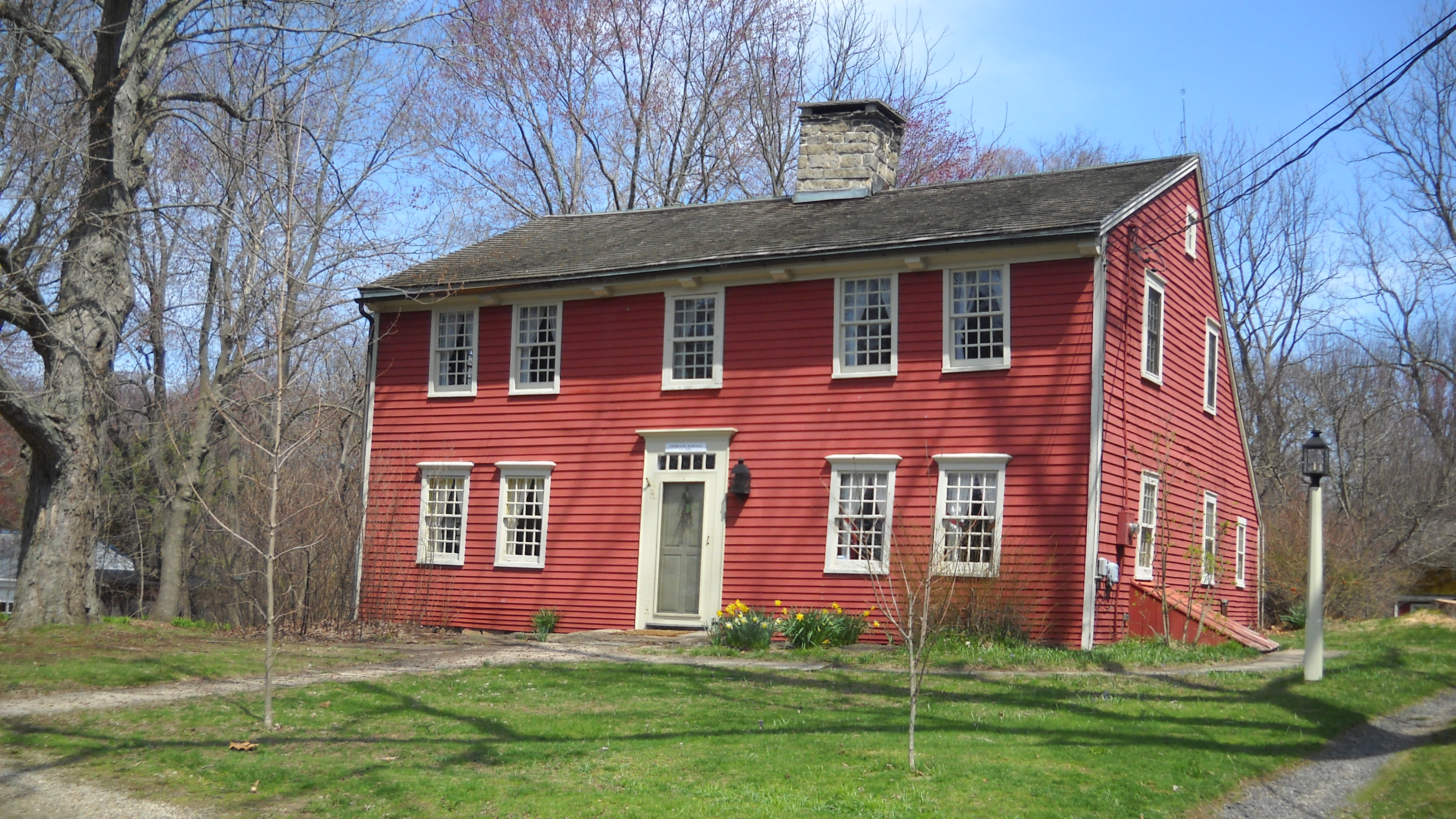 Picture of Ephraim Hawley House Spring 2011